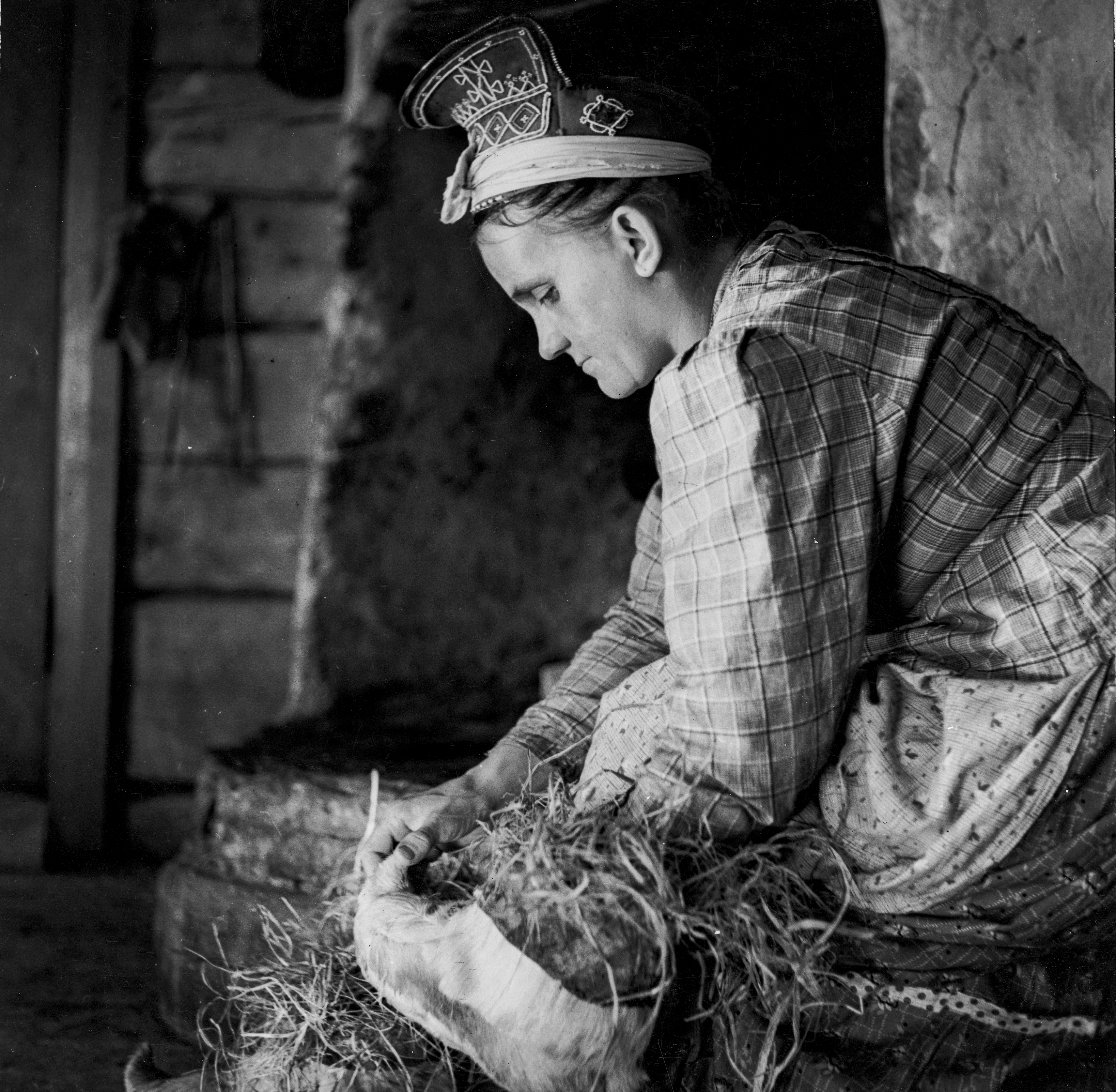 Winter village in Suõʹnnjel. Every morning the Skolt Sami wife stuffs her husband's shoes with soft hay.